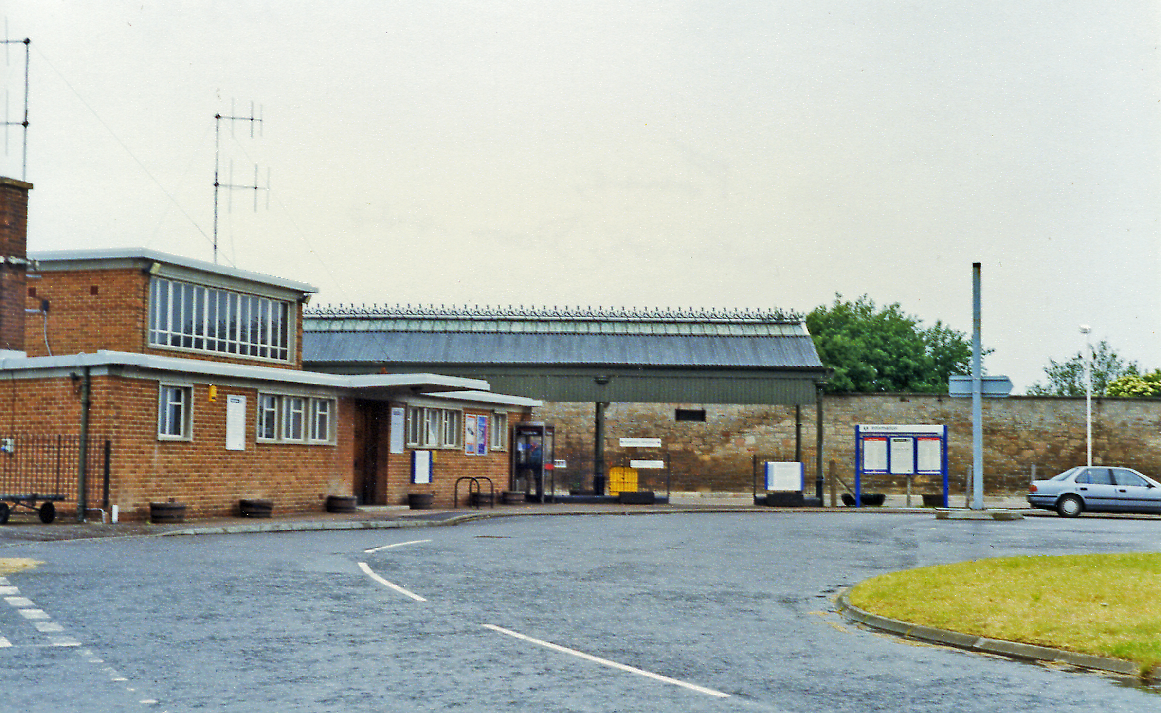 Forres station (exterior), 1997. View NW from the appoach-road: ex-Highland Railway (Aberdeen) - Keith - Elgin - Forres - Nairn - Inverness main line, also until closed 1/4/68 (passengers 18/10/65) the ex-Highland main line from Aviemore via Dava joined here from the south. The station was rebuilt in 1955.